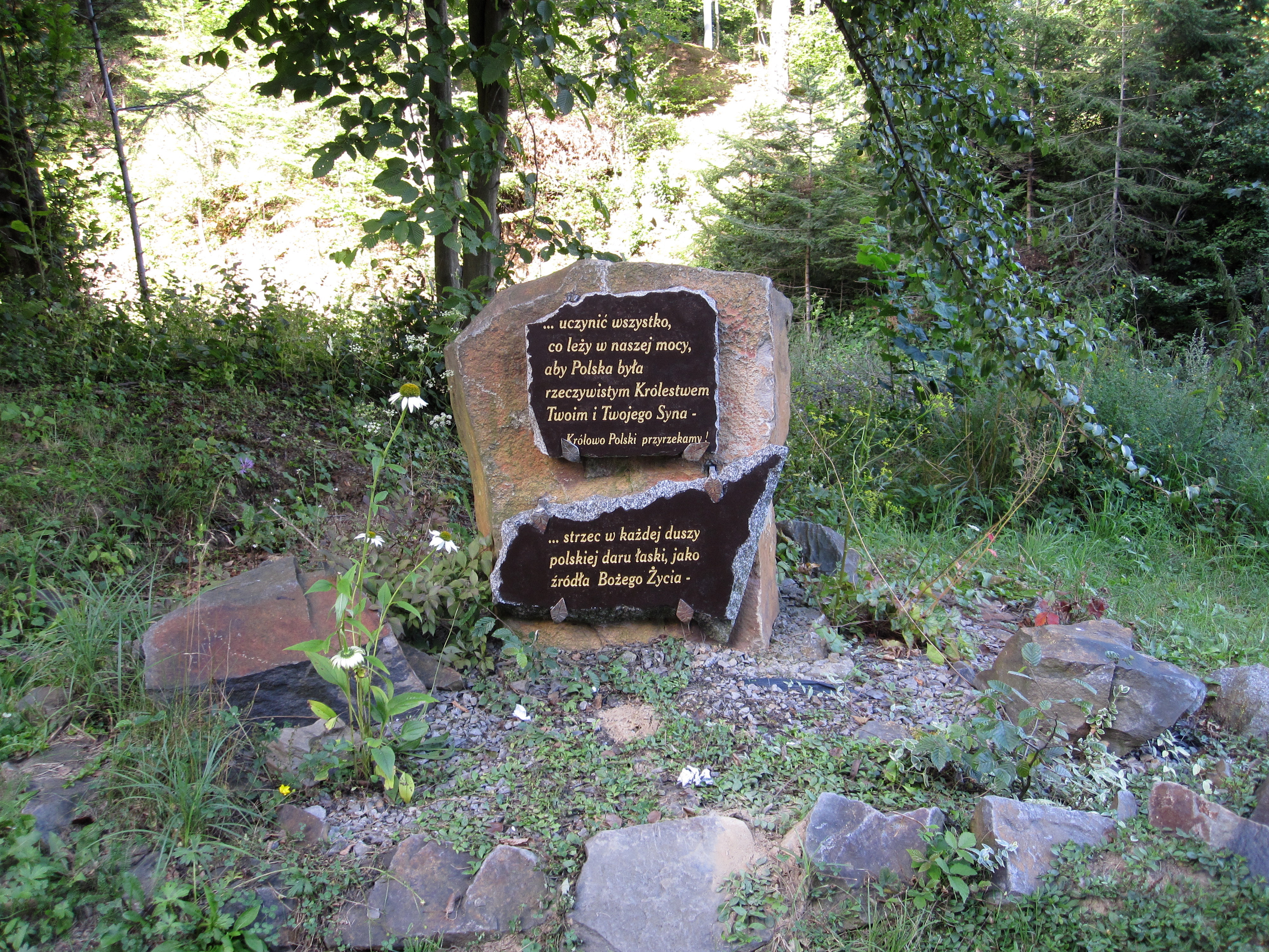 Sign in Komańcza village